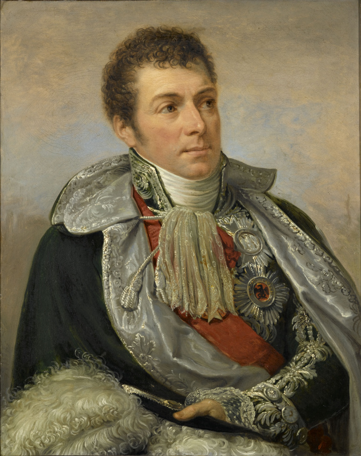 Marshal of the Empire Louis-Alexandre Berthier in his Imperial Court costume.